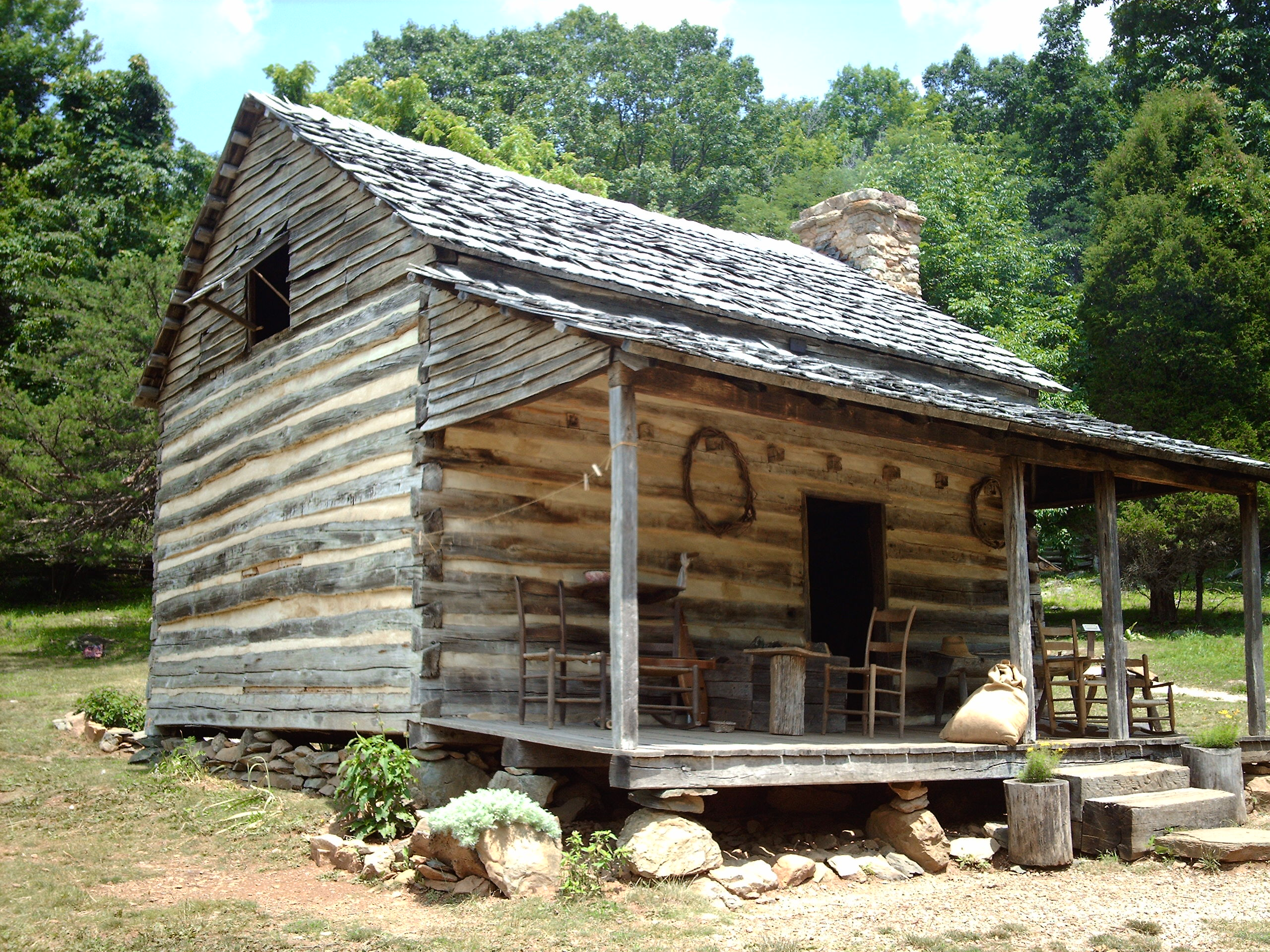 Blue Ridge Parkway at Humpback Rocks.